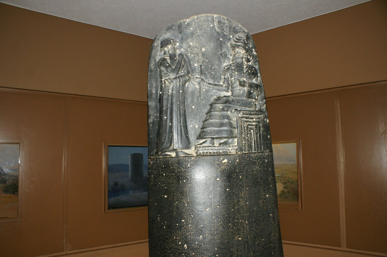 Hammurabi stele replica, photographed American Museum of Natural History, New York, 2012